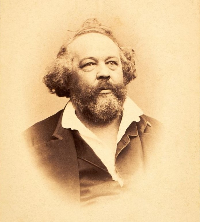 Bakunin, probably during his time in Italy